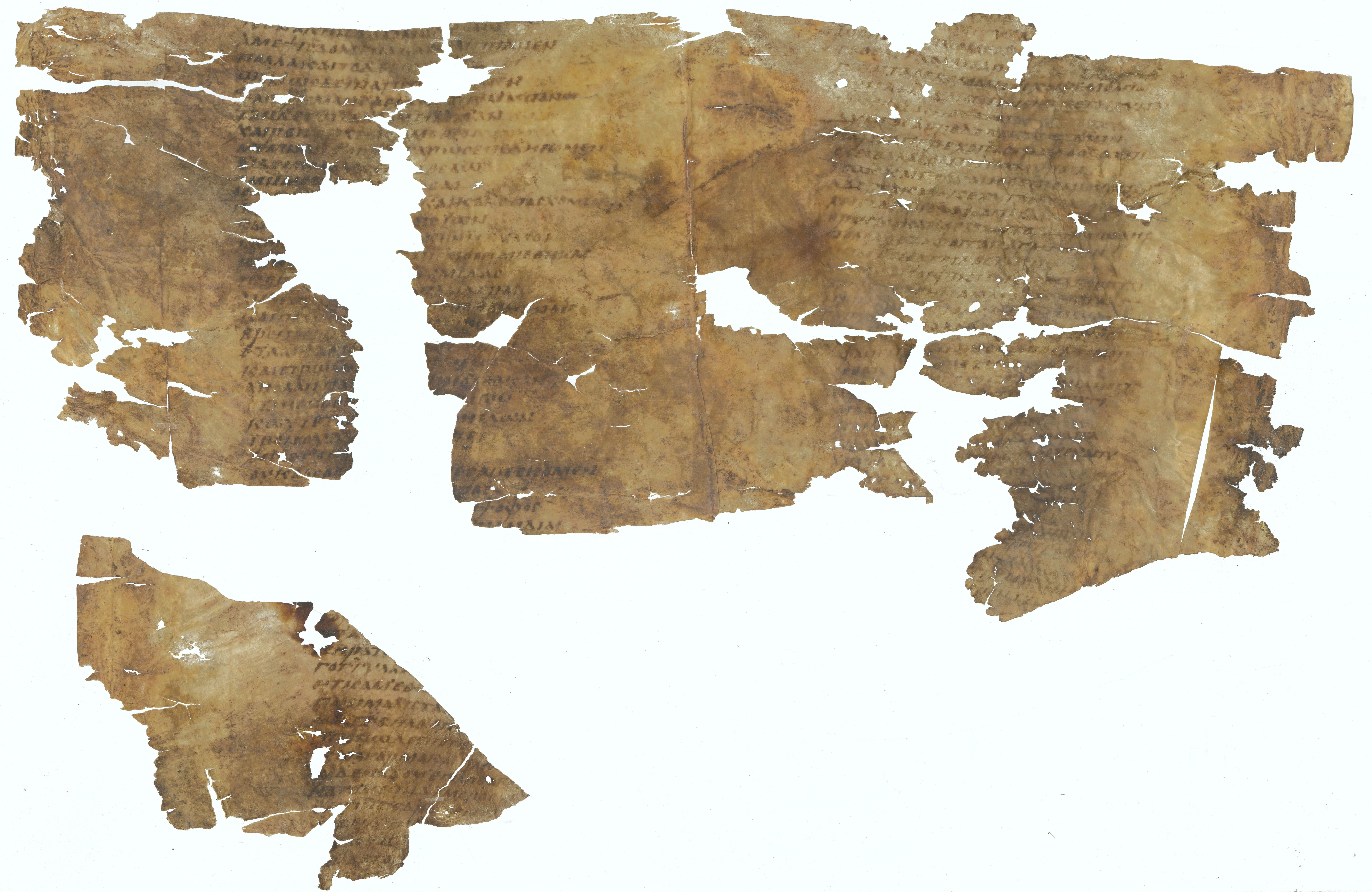 Fragment of parchment preserving parts of several poems by Sappho (Frr. 92–97 Voigt). The parchment dates to the sixth or seventh century AD.